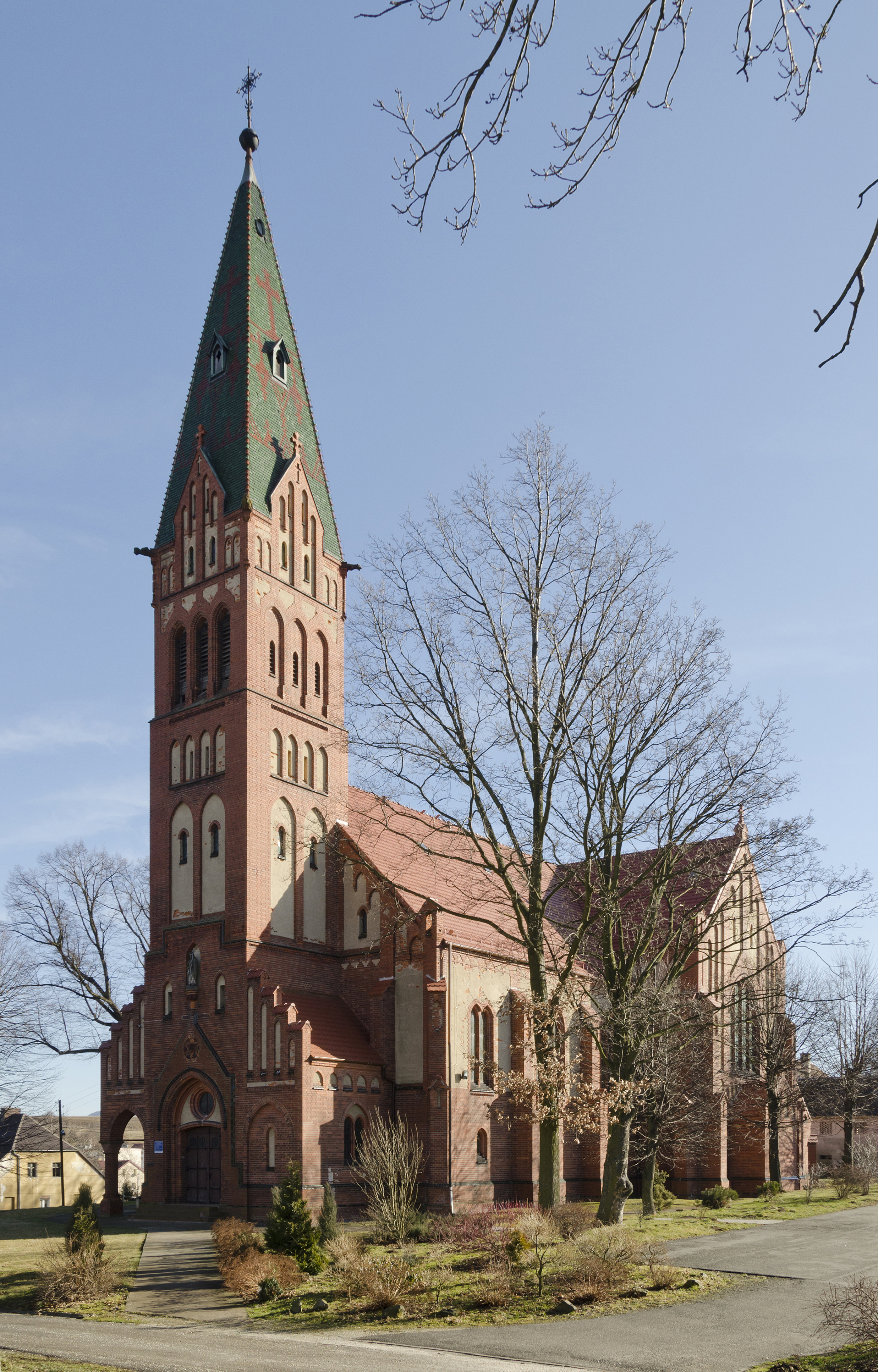 Saint John the Baptist church in Jaszkowa Dolna